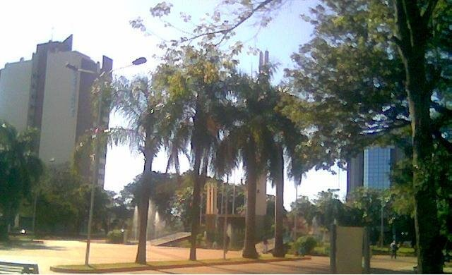 View of the "Plaza de Armas" in Encarnación, Paraguay